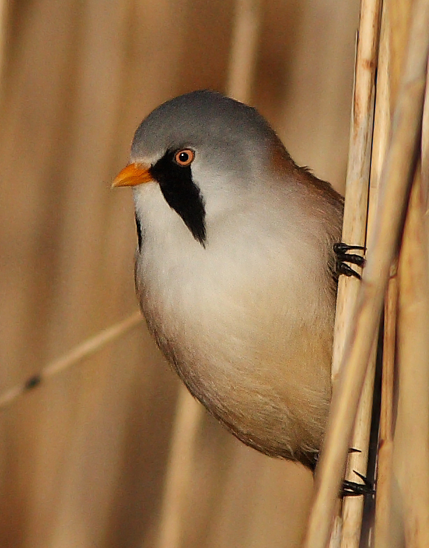 Bearded Reedling